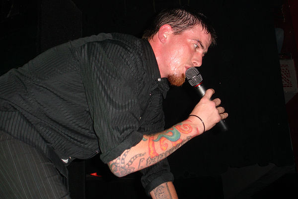 Taproot-singer Stephen Richards